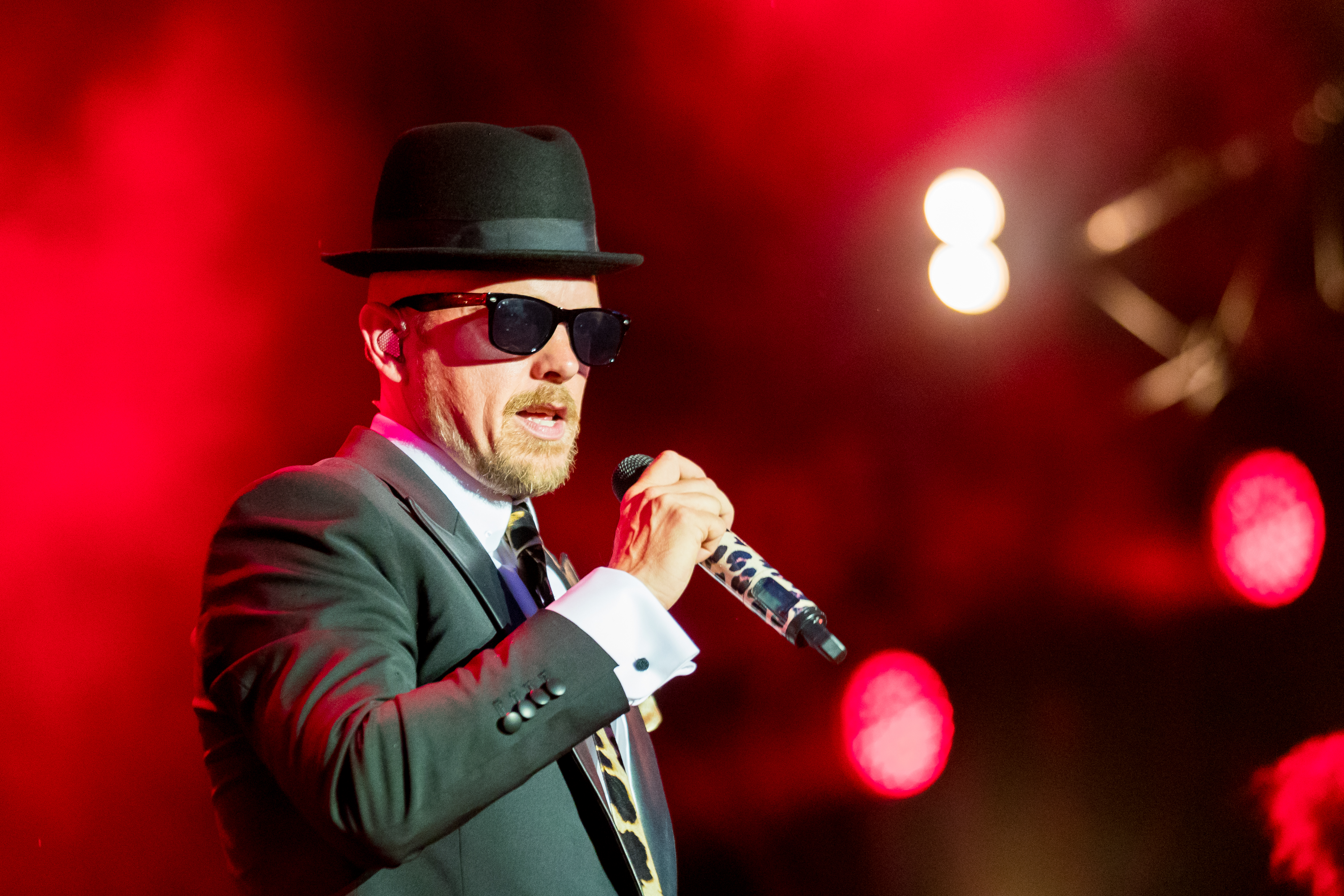 Jan Delay @ Rock the Ring 2018